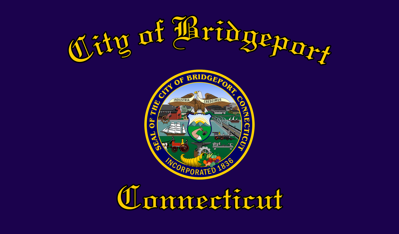 Flag of the United States city of Bridgeport, Connecticut. Image created by uploader based on Image:Bridgeportflag.jpeg. For more information on seal device, see Image:Bridgeport seal.png.